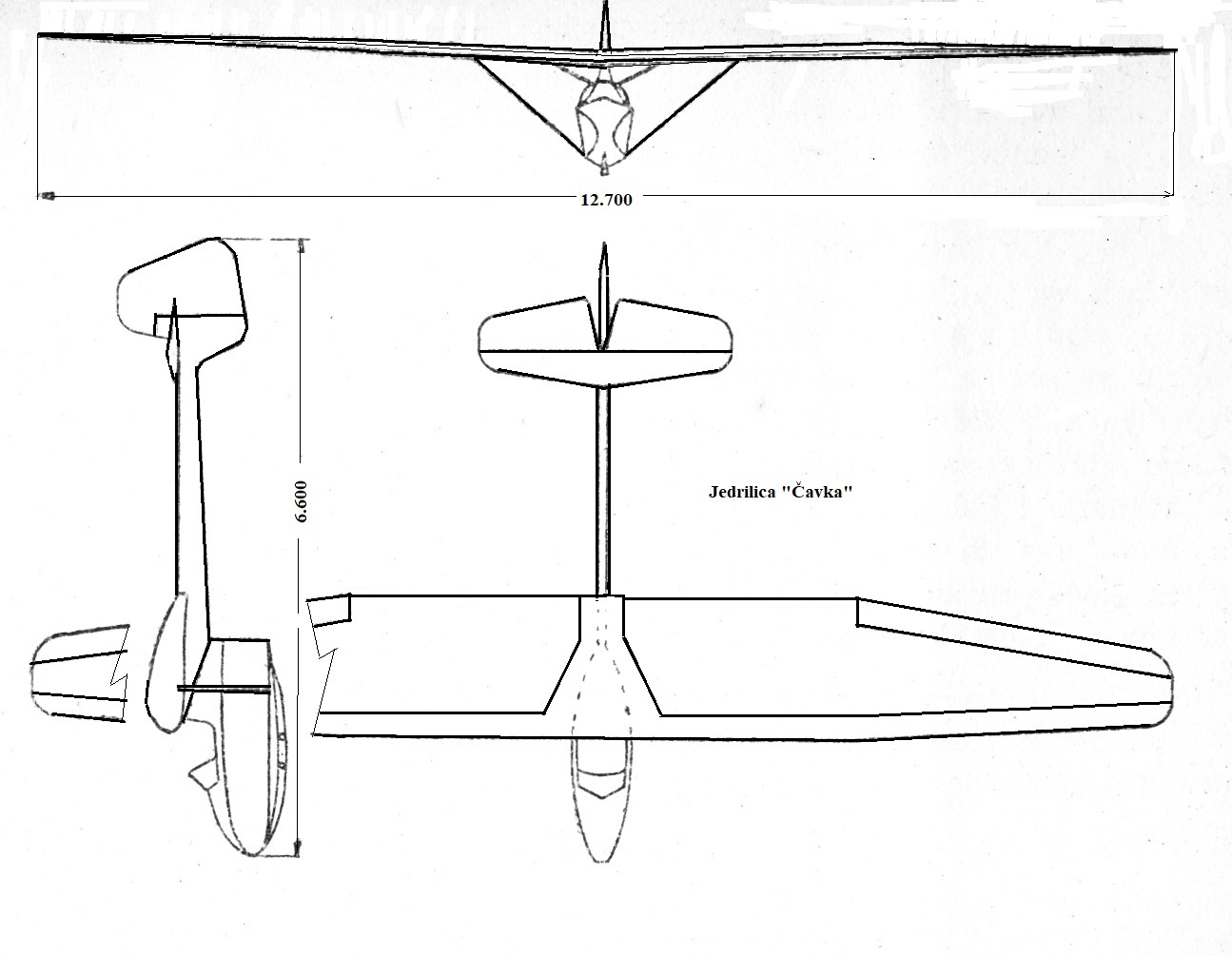 Glider "Čavka"